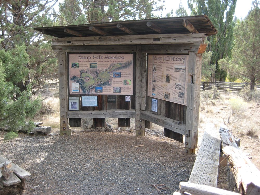 Camp Polk Oregon Kiosk. See Camp Polk for more information.